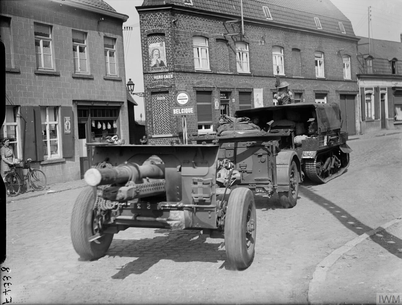 The British Army in France and Belgium 1940 A Light Dragon Mk III artillery tractor towing a 25-pdr field gun and limber in Herseaux, as the BEF crosses the border into Belgium, 10 May 1940.